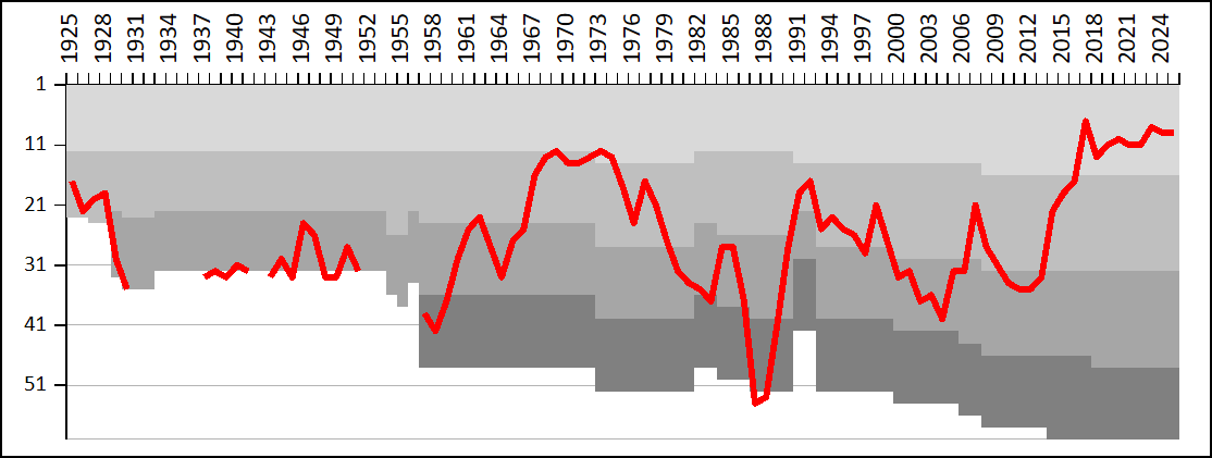 A chart showing the progress of IK Sirius through the Swedish football league system. Horizontal black lines represent league divisions.